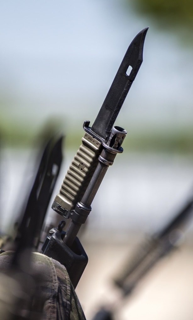 AK-74 bayonet of the Spanish Army